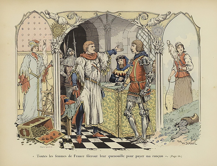 All the women of France will spin their distaffs to pay my ransom